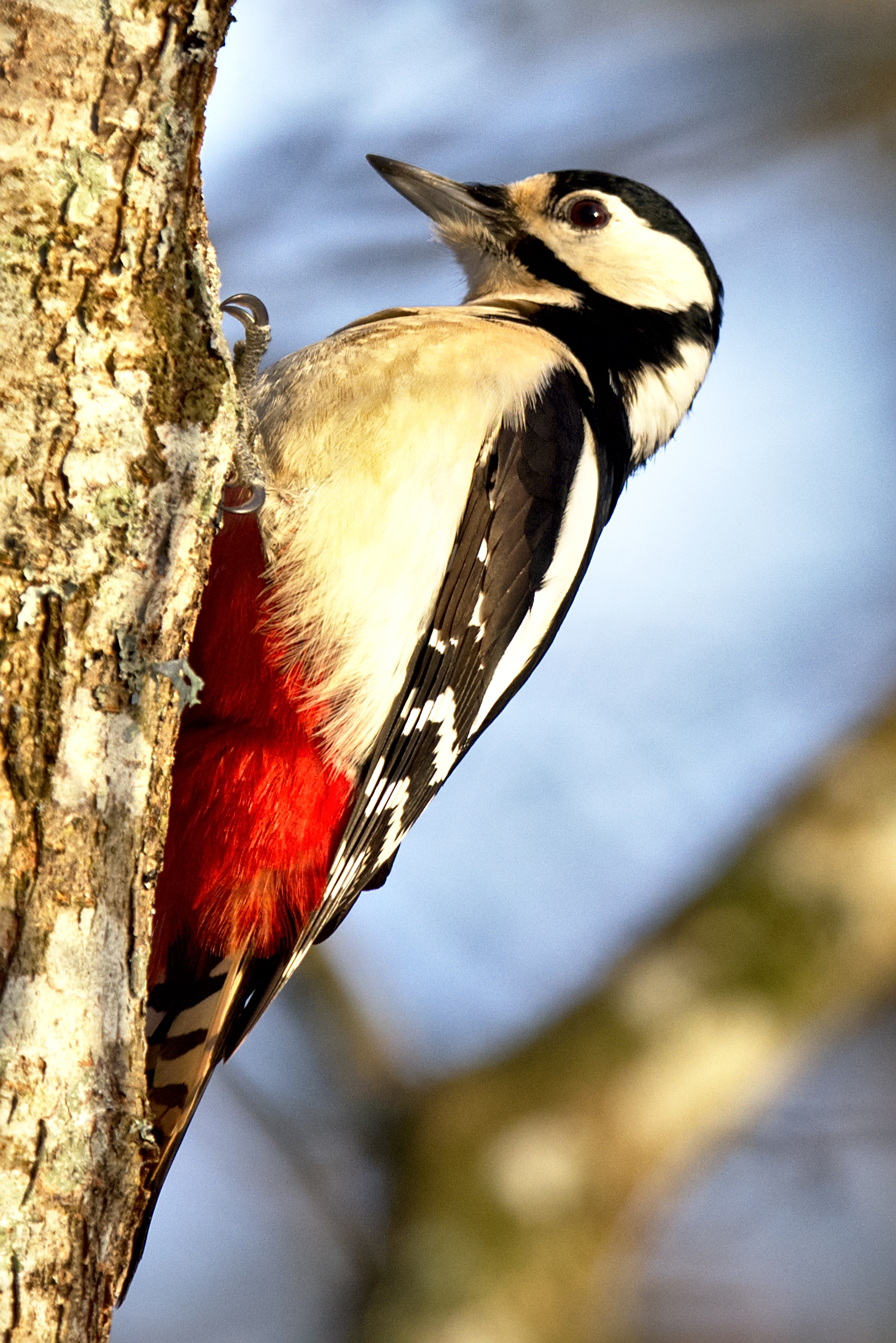 Dendrocopos major, female.